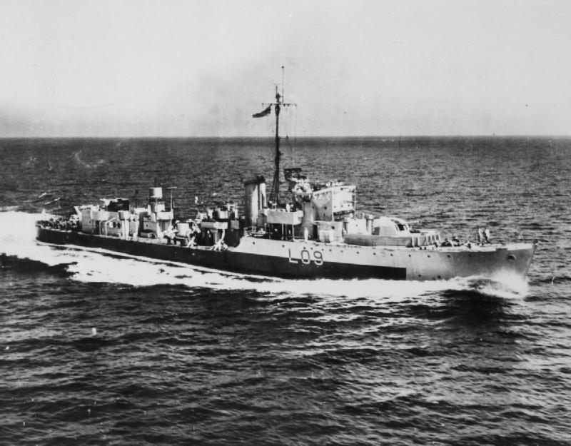 HMS Easton Underway at speed.